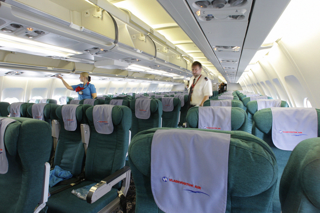 “Presentation of Vladivostok Avia airlines Airbus А330-300 in Vnukovo airport”. Presentation of Vladivostok Avia airlines Airbus А330-300 in Vnukovo airport.